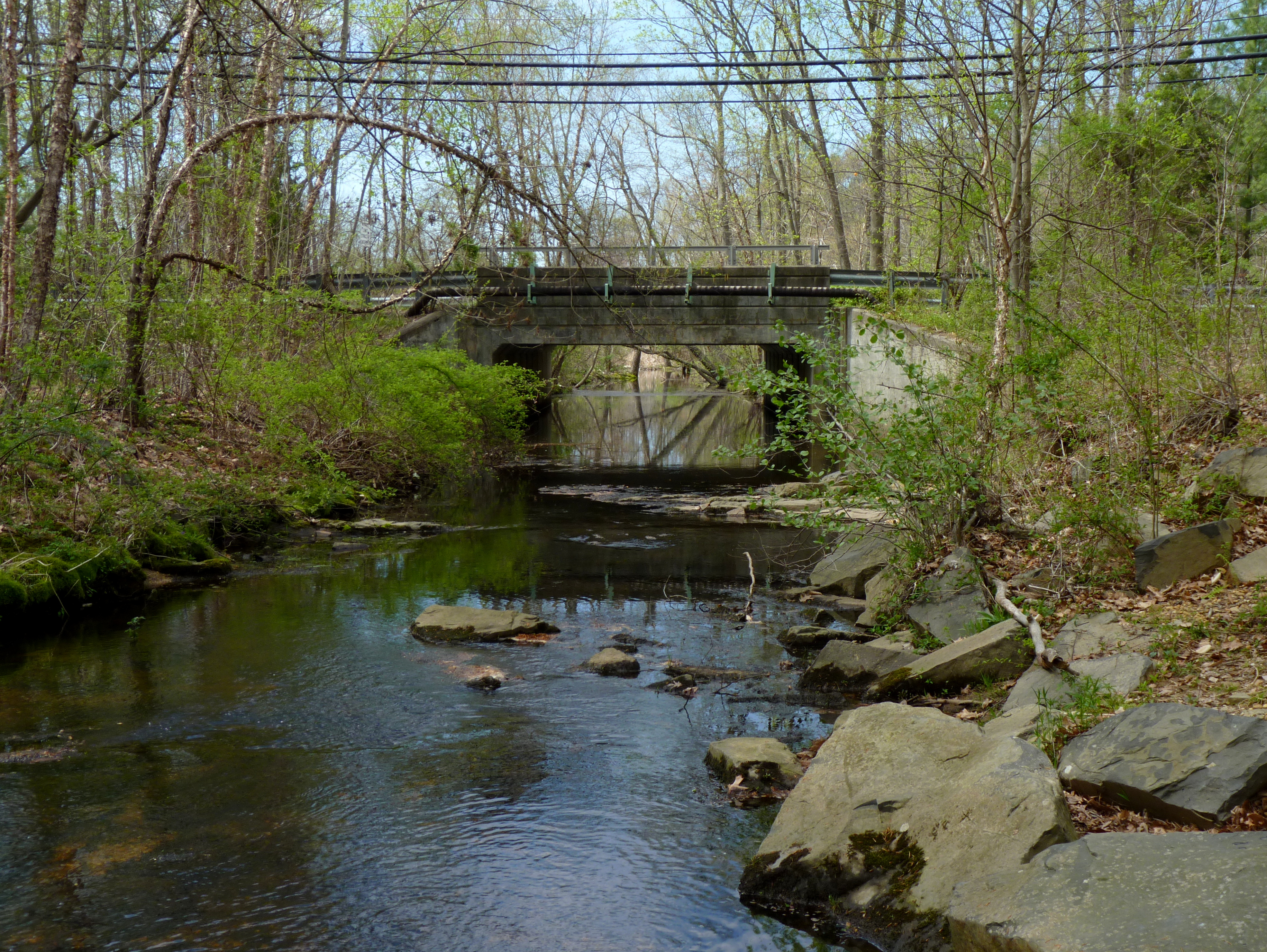 Bridge at Riva Avenue near where it drains into the Farrington Lake.